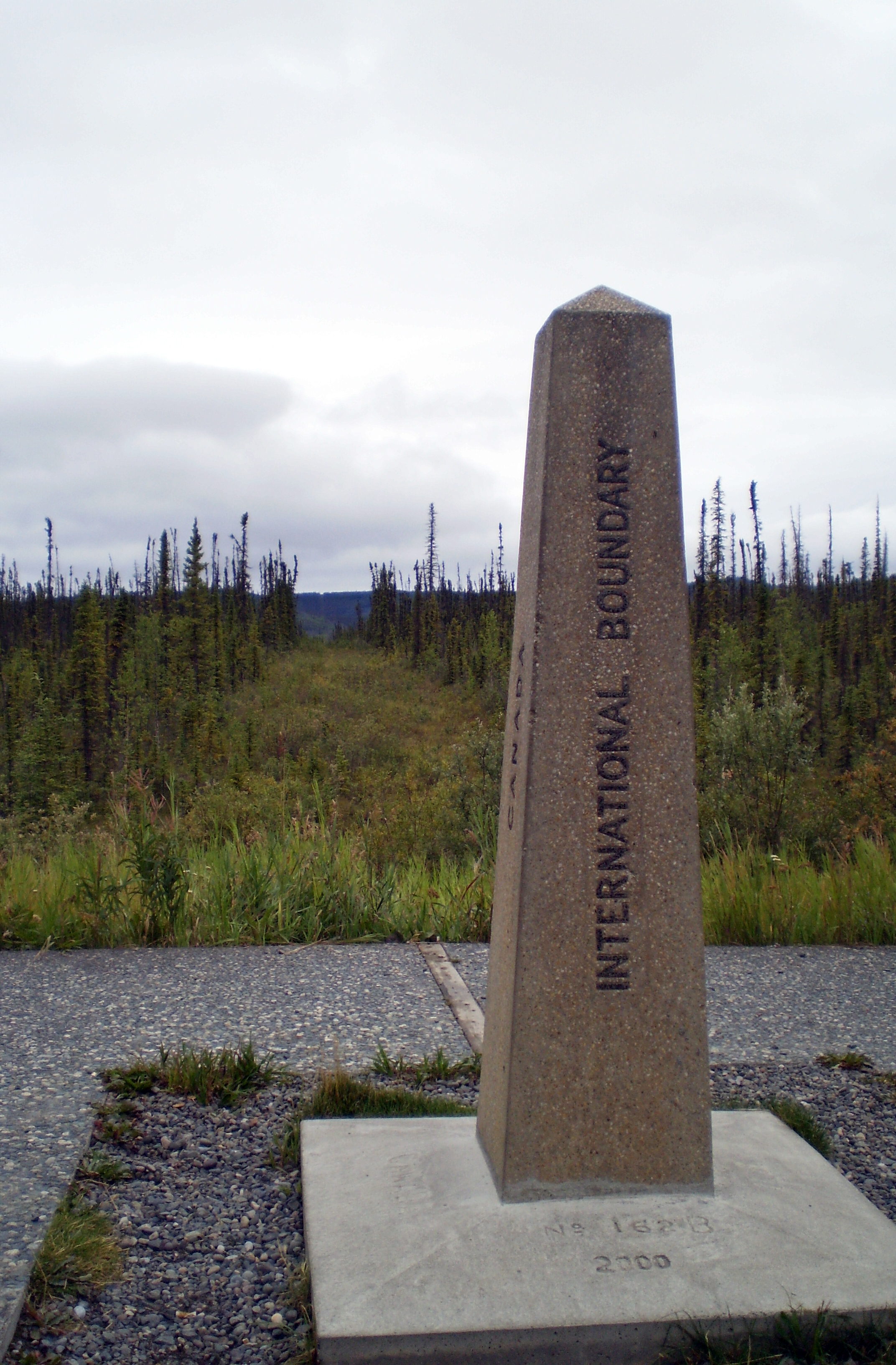 The border vista between the United States state of Alaska and the Canadian province of Yukon Territory, as seen from the border crossing of the Alaska Highway.